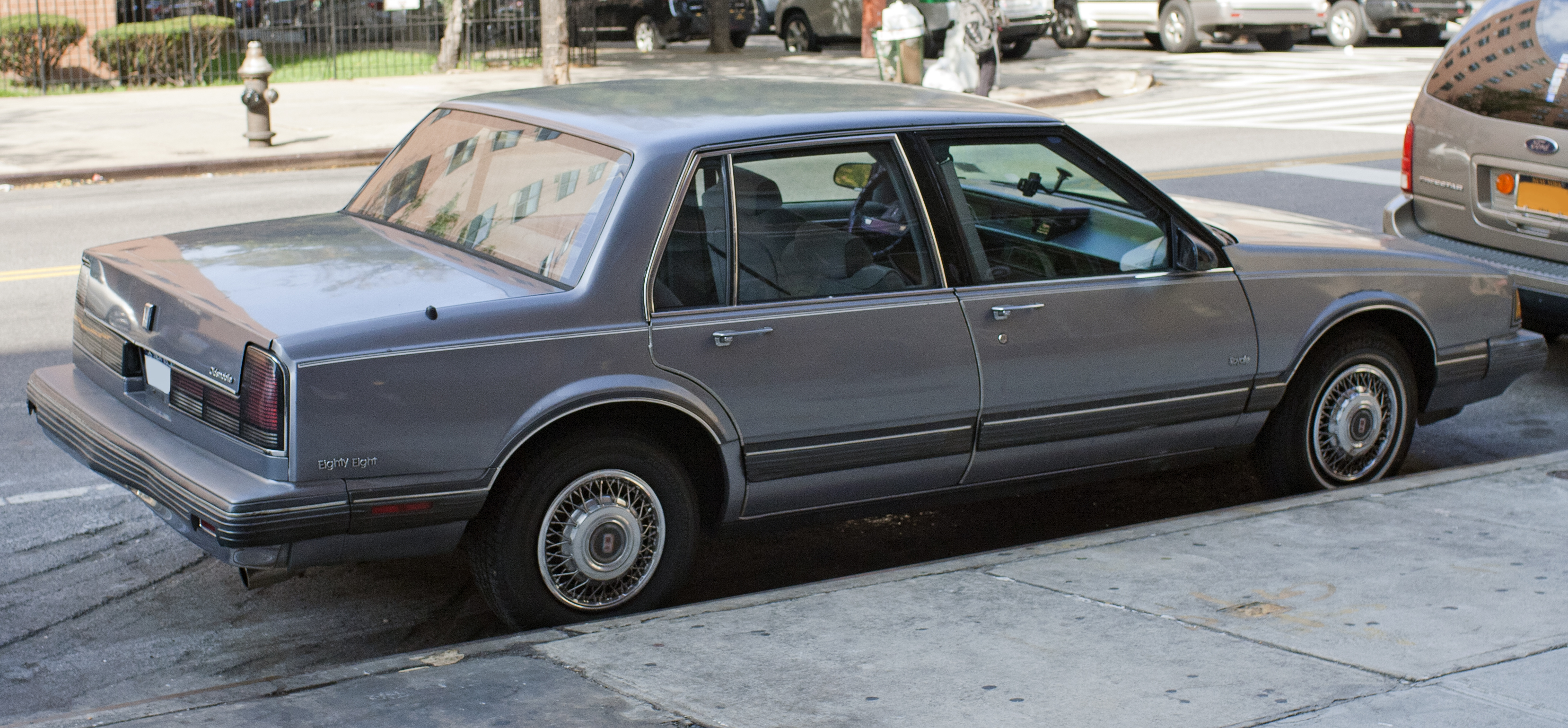 1990 Oldsmobile Eighty-Eight Royale in Harlem